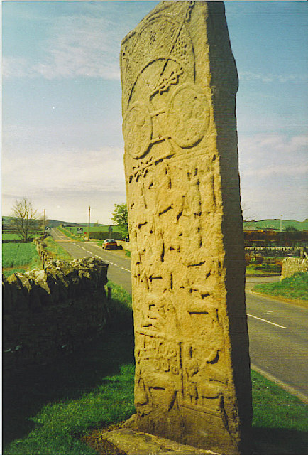 Pictish Standing Stone, Aberlemno. One of several stones on the B9134 Brechin - Montrose road. Visible are Pictish symbols like the double mirror at the top while are battle scenes, maybe from Nechtansmere. The stones are covered in winter.